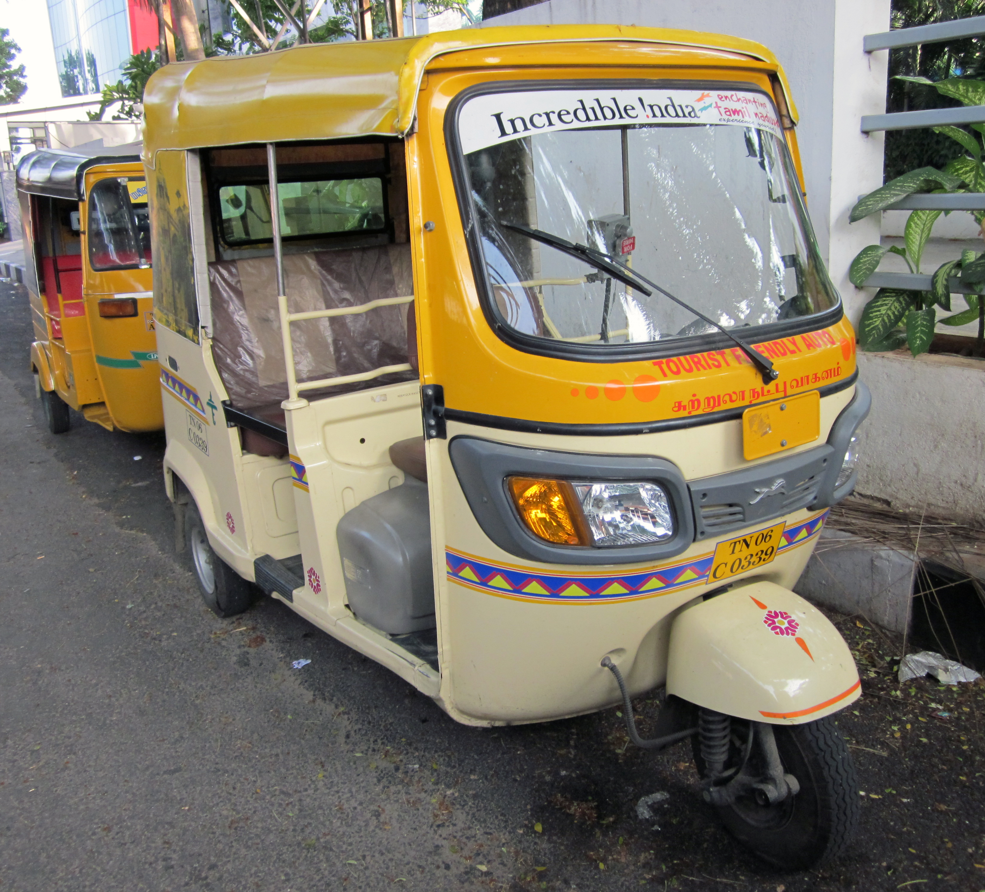 The virtual monopoly of Bajaj in the tuk tuk scene is India has now mercifully been broken with the advent of several new makers building more modern vehicles. Some of these are Piaggio, Atul, Mahindra and TVS. TVS tuktuks are more spacious and better finished than the Bajaj. Here is a TVS tuktuk in the southern Indian city of Madras (Chennai). For some reason, several TVS tuktuks bear the 'tourist friendly auto' (auto because tuk tuks are called autorickshaw in India) sign, wonder why. Madras (Chennai) tuktuk drivers are notoriously infamous for their sly and crude ways of ripping off the hapless passenger and taking him for a right royal ride (literally). (Madras/ Chennai, Oct 2009)